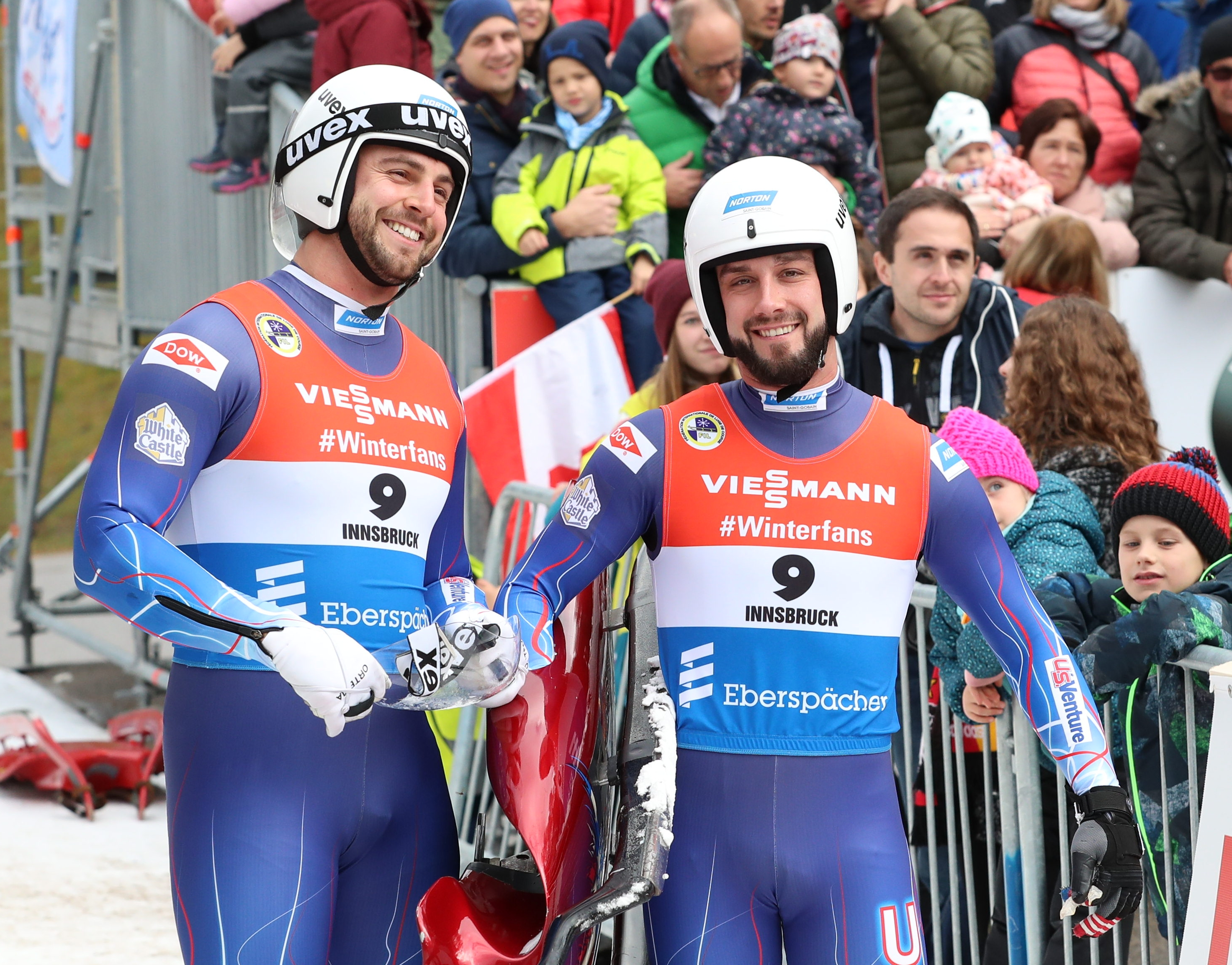 Doubles World Cup race at the 2018/19 Luge World Cup in Innsbruck-Igls